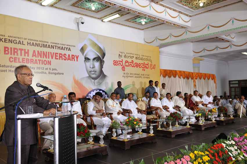 inaugral of function